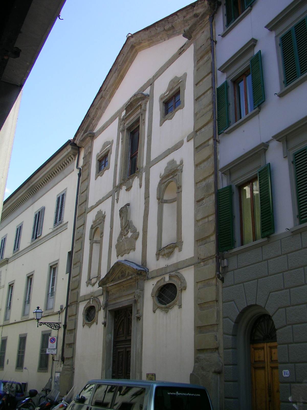 Sant'Agata church front view in Florence, Italy